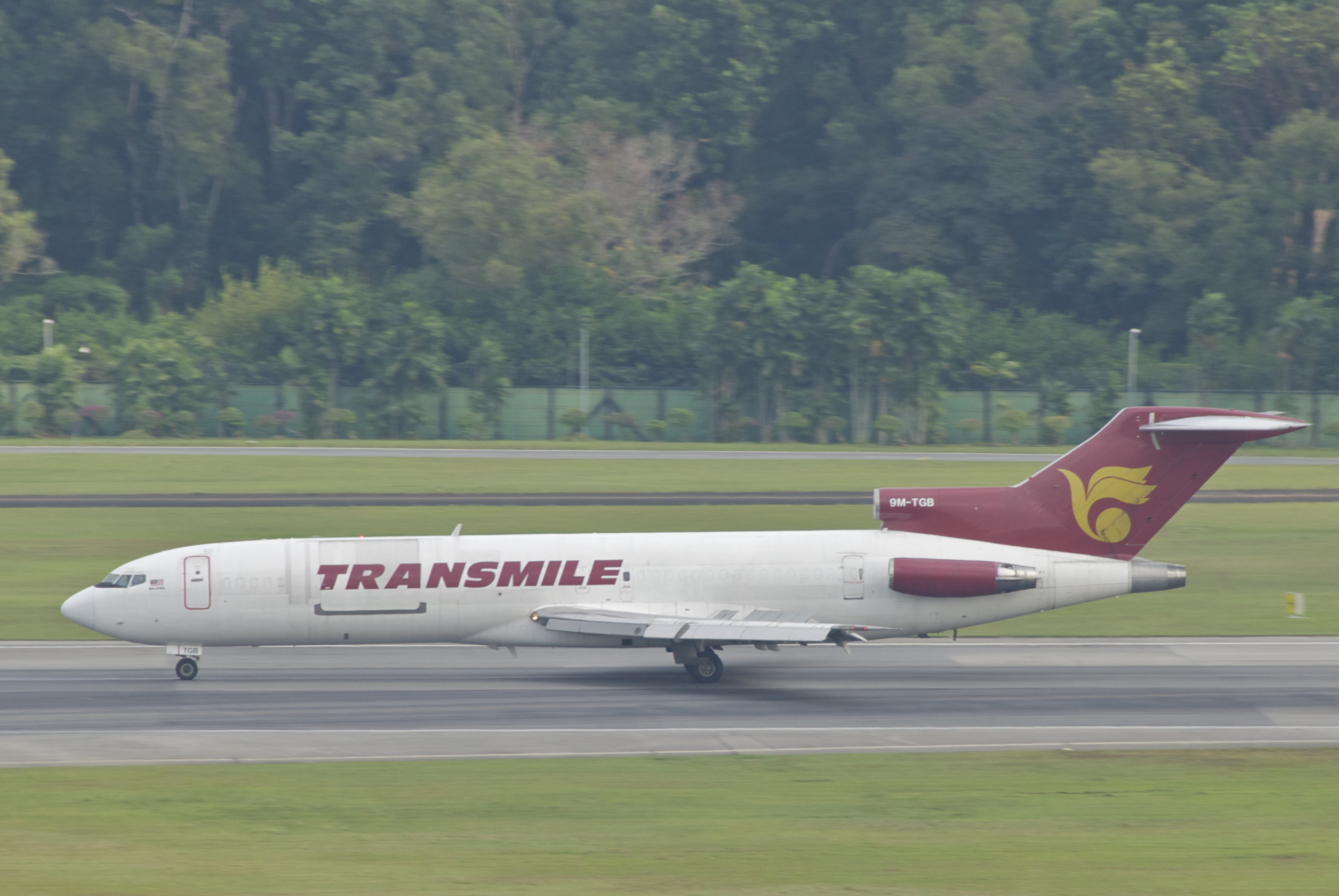 Transmile Boeing 727-2F2 (F); 9M-TGB@SIN;02.08.2012/668ci